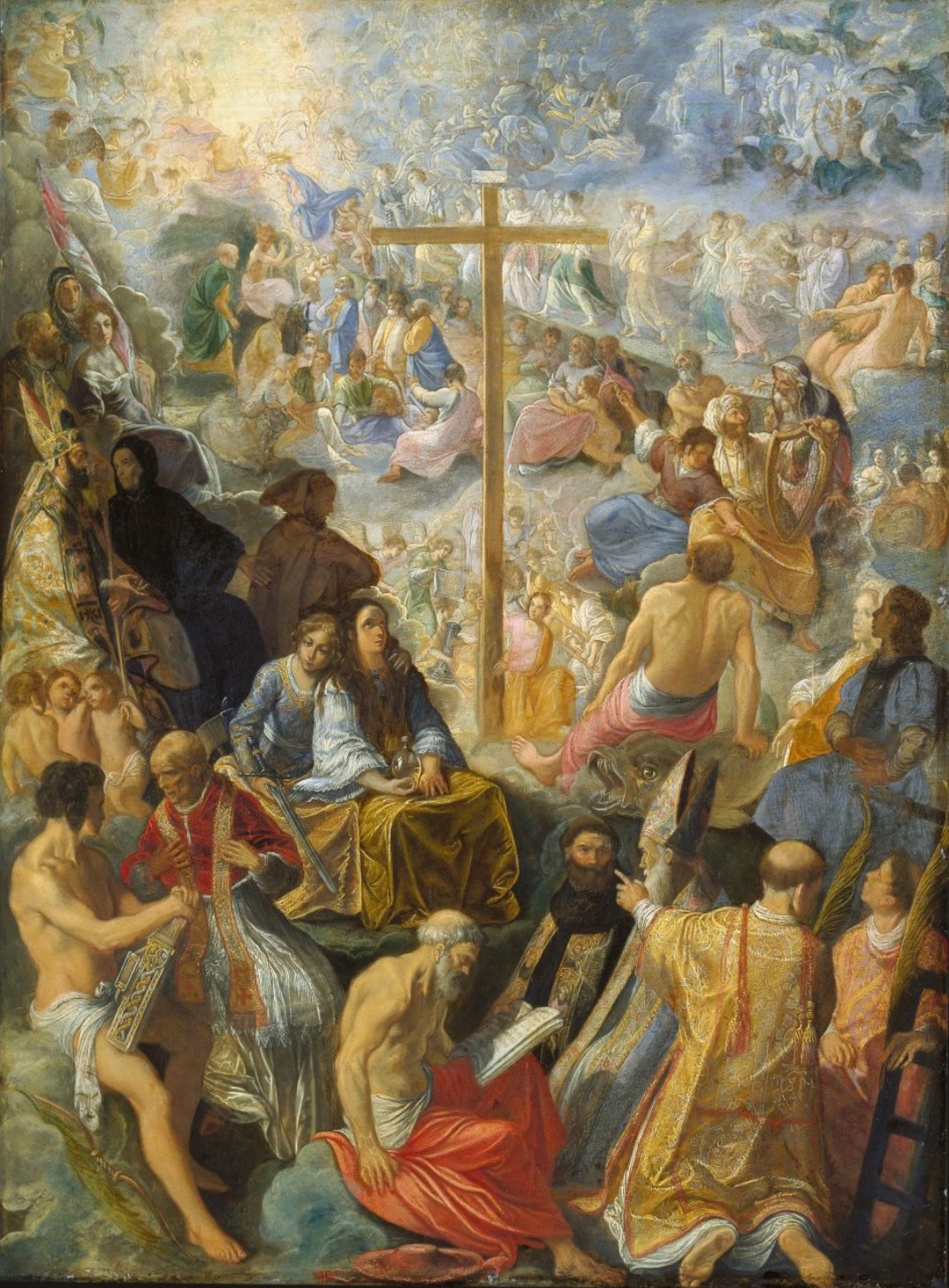 In the central panel the Glorification of the cross by the Saints, the prophets and the angels is shown. On the right, are the 4 the patriarchs including Moses, Abraham and King David. Jonas is sitting on the fish, looking up towards the cross, and St Catherine and Mary Magdalene are in a sisterly embrace. In the foreground is a disputation between St Sebastian and the 4 Fathers of the Church, Pope Gregory, St Jerome, St Ambrose and St Augustine, with the first Christian martyrs St Stephen and St Laurence.